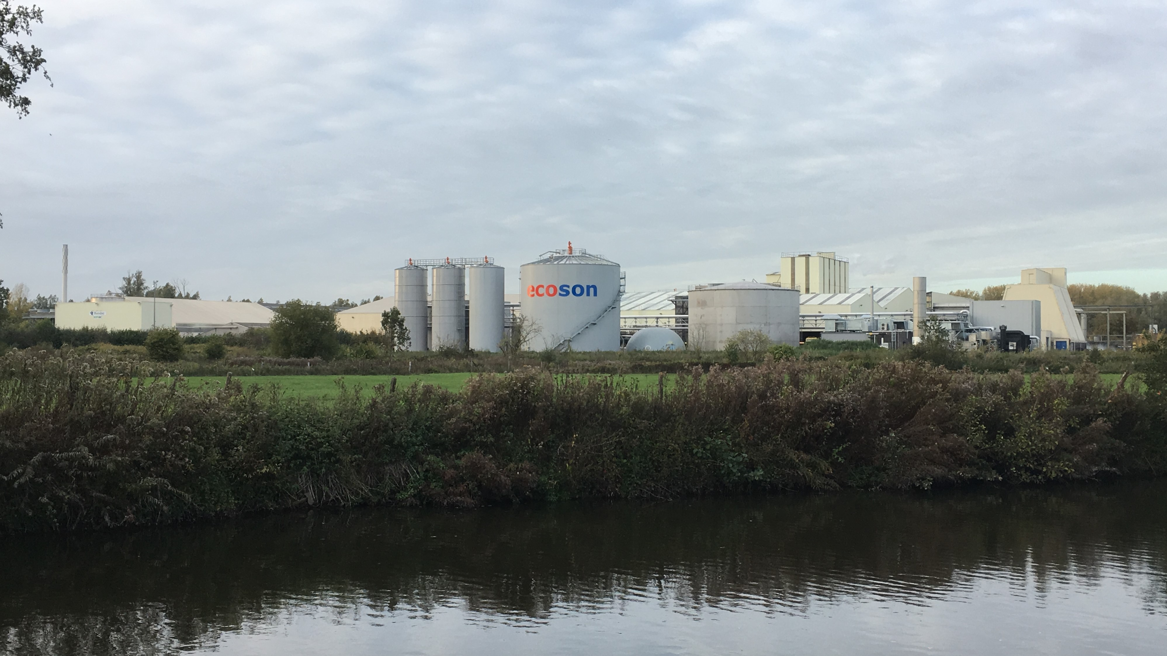 Animal destruction company Rendac-Ecoson in Denderleeuw, Belgium